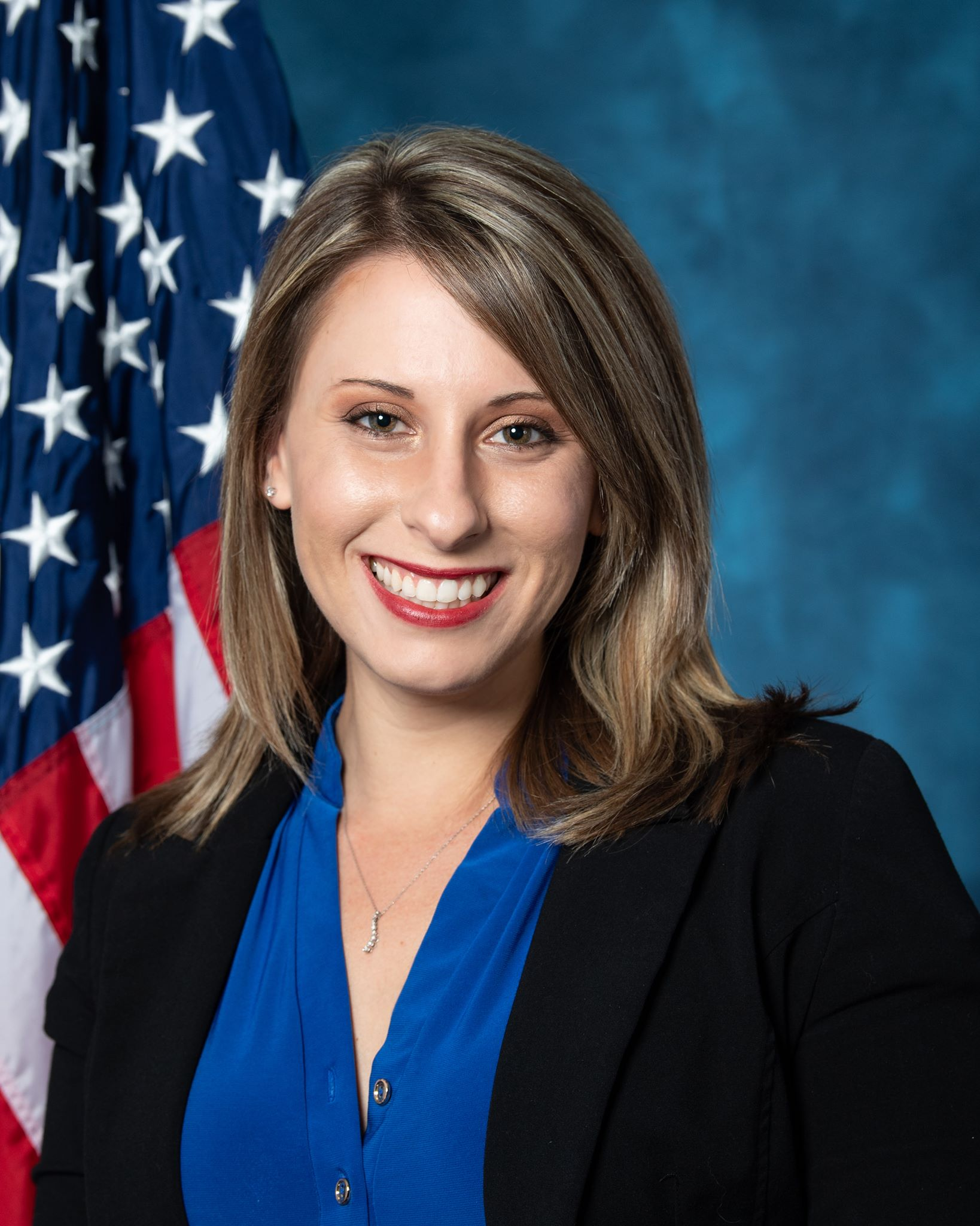 Rep. Katie Hill (D-CA25)